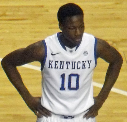 Archie Goodwin during a Kentucky Wildcats men's basketball game